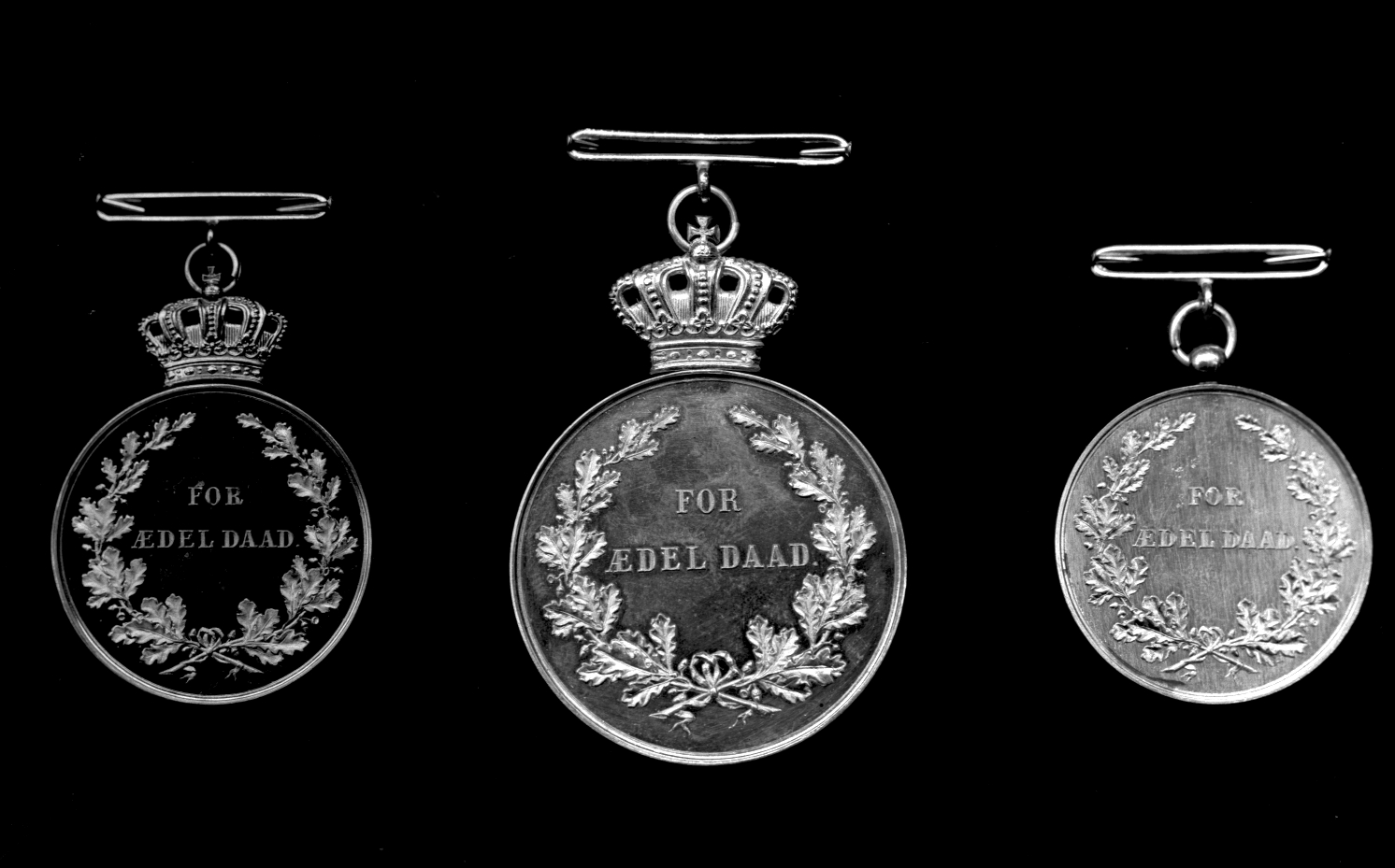 Reverse of Norwegian Medaljen for edel dåd (Medal for Heroic Deeds), three classes, with portrait of king Oscar II. Photo by Borgen, Gustav, Norsk Folkemuseum, via DigitaltMuseum.